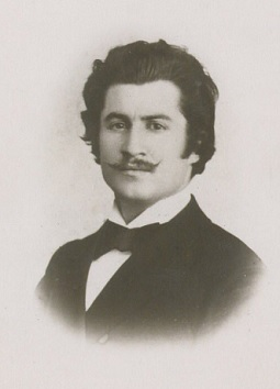 Rıza Tevfik (Rıza Tevfik Bölükbaşı after the Surname Law of 1934; 1869 – 31 December 1949) was a Turkish philosopher, poet, politician of liberal signature and a community leader (for some members among the Bektashi community) of the late-19th-century and early-20th-century. Rıza Tevfik in his early days. (Cropped image)